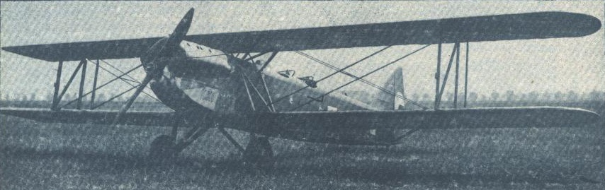 Aircraft Letov Š-116 with engine Škoda L (500 HP)